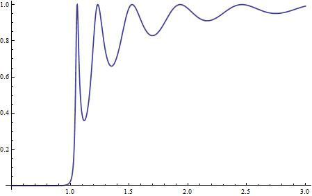 Resonance peaks as a function of incident Energy in case of scattering from 1D potentials for shape factor 13